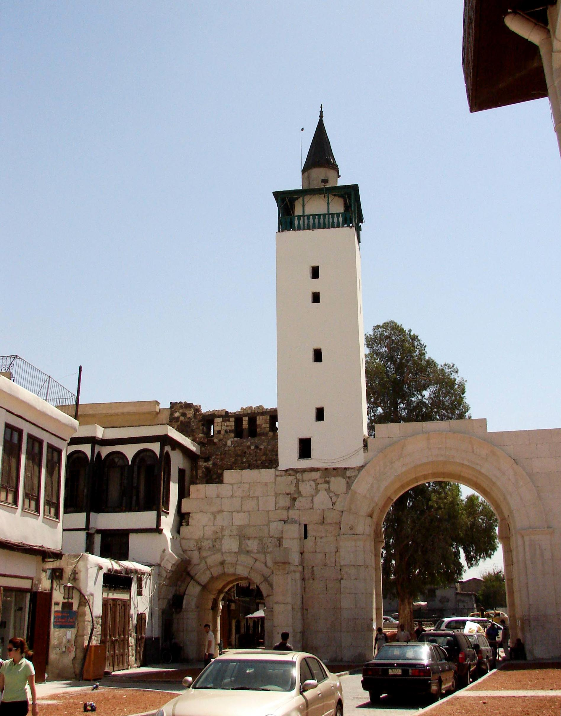 Bab Sharqi gate in Damascus